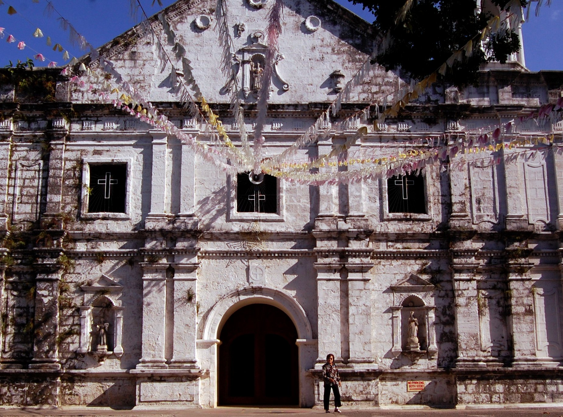 NCCA NATIONAL HERITAGE SITE. The church was built between the last years of the 18th century and the early part of the 19th century, and was damaged during a recent earthquake. The church features a beautifully carved choir loft. Blogged at Paraluman in "Shooting Churches, Eating Noodles". Nikon D40 (RDC 3 Full Council Assembly, December 2008)